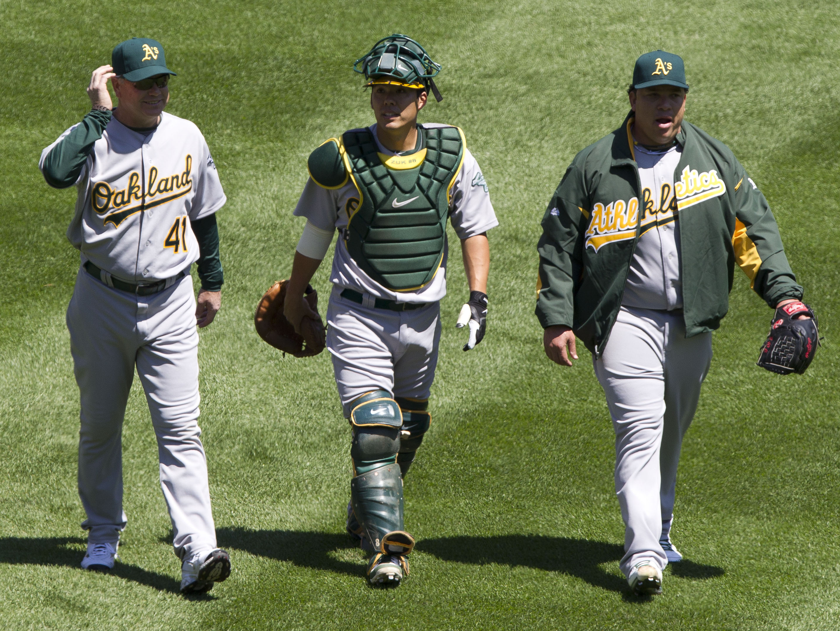 Athletics at Orioles April 29, 2012